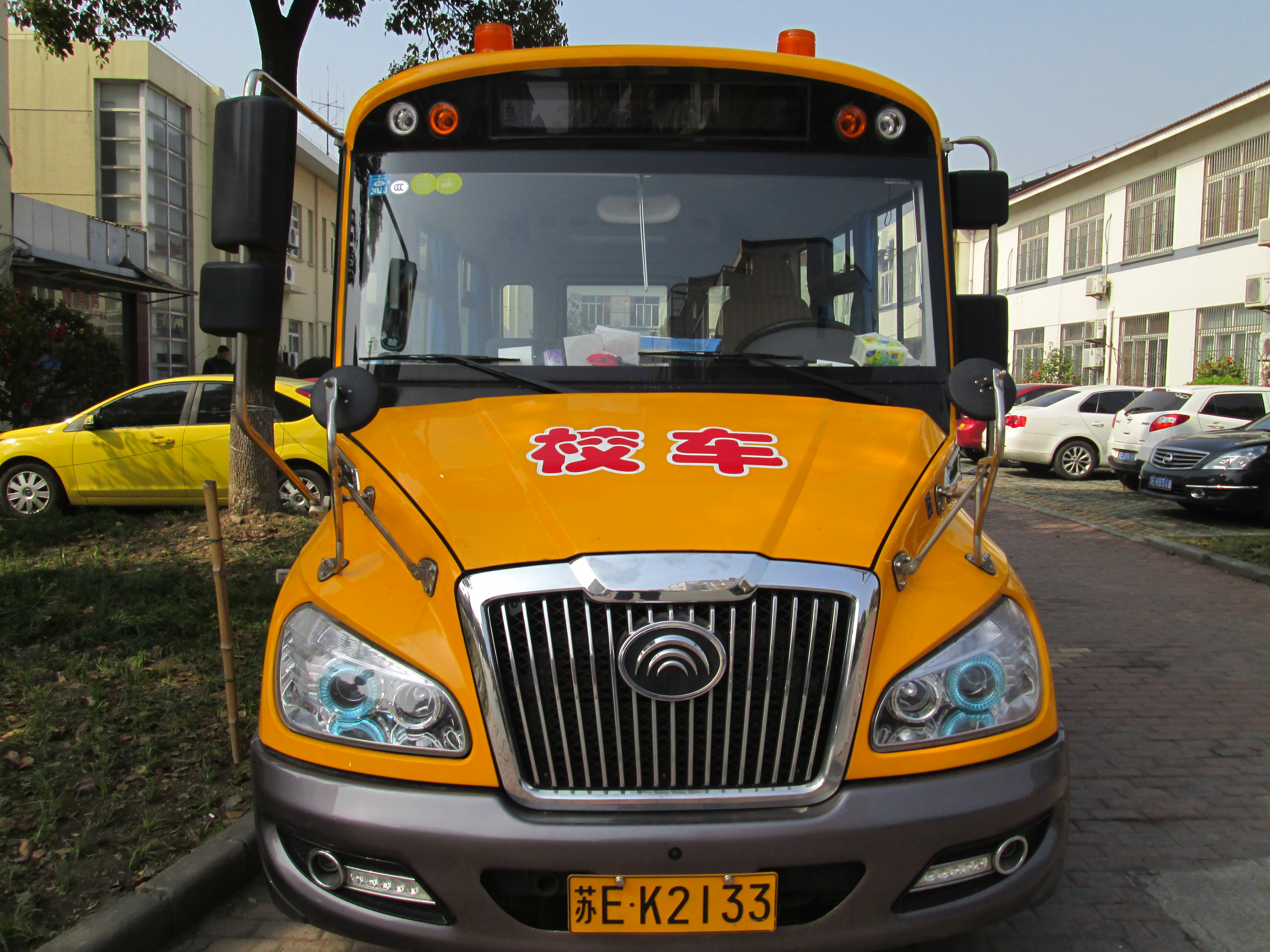 A front view of a school bus (Yutong ZK6559DX) in Taicang, Jiangsu, China. The school bus is one of the more recent buses that uses the American-style cowled chassis with a separate hood.